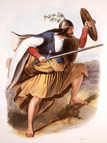 "Ferguson". A plate illustrated by R. R. McIan, from James Logan's The Clans of the Scottish Highlands, published in 1845.